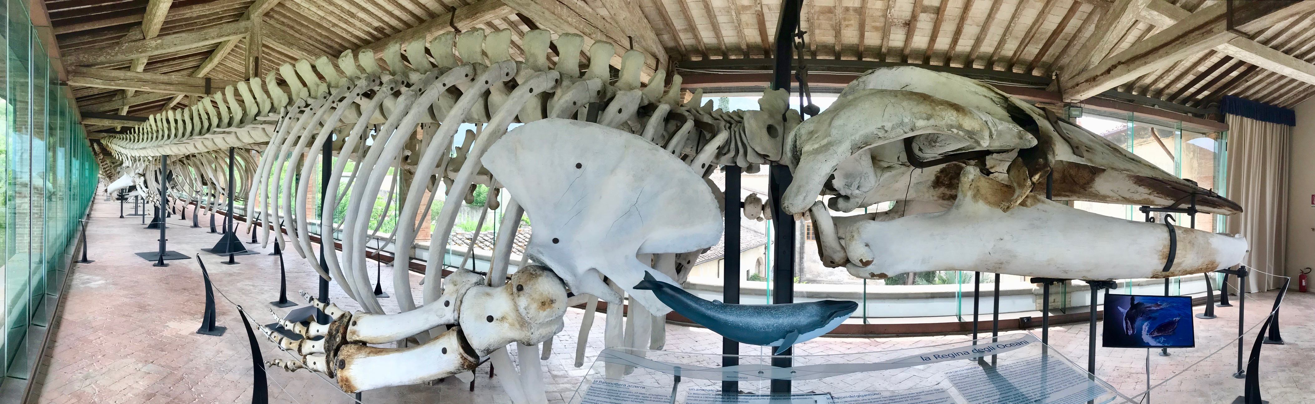 Blue whale (Balaenoptera musculus) complete Skelton in the new cetaceans gallery at University of Pisa's Natural History Museum. 22m long, it is the only complete skeleton of this species in Italy.